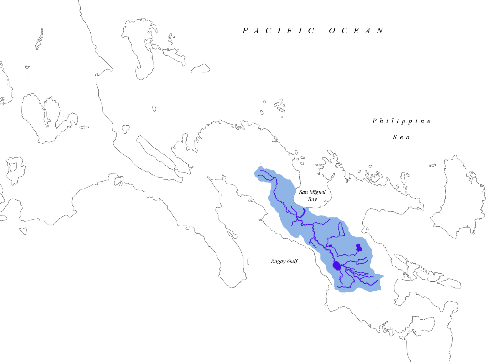 Drainage ares of the Bicol River